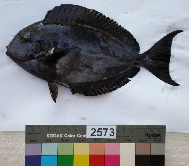 Acanthurus albipectoralis. Locality: Récif Snark, Off Nouméa, New Caledonia. Fork Length 243 mm, Weight 243 grams. Date 2008-06-05; See also other photograph of same fish, with white paper to show white pectoral